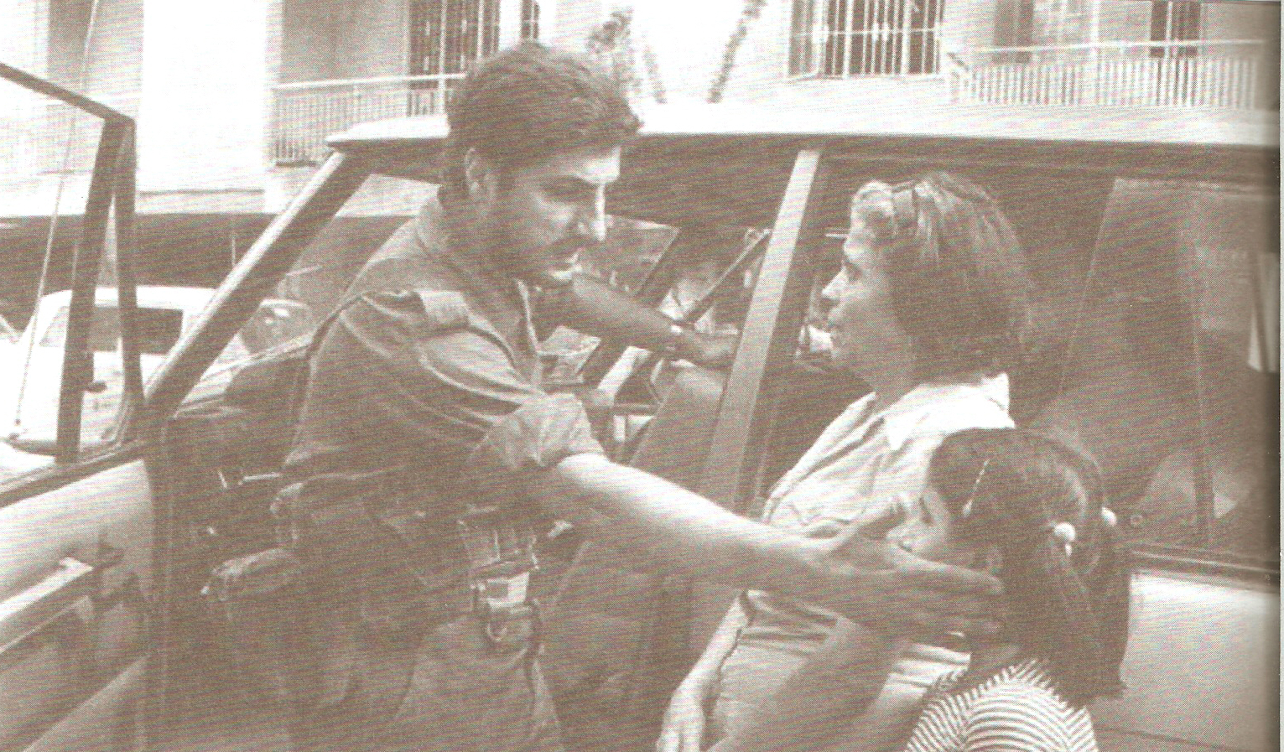 Bachir in the Street talking to a pedestrian